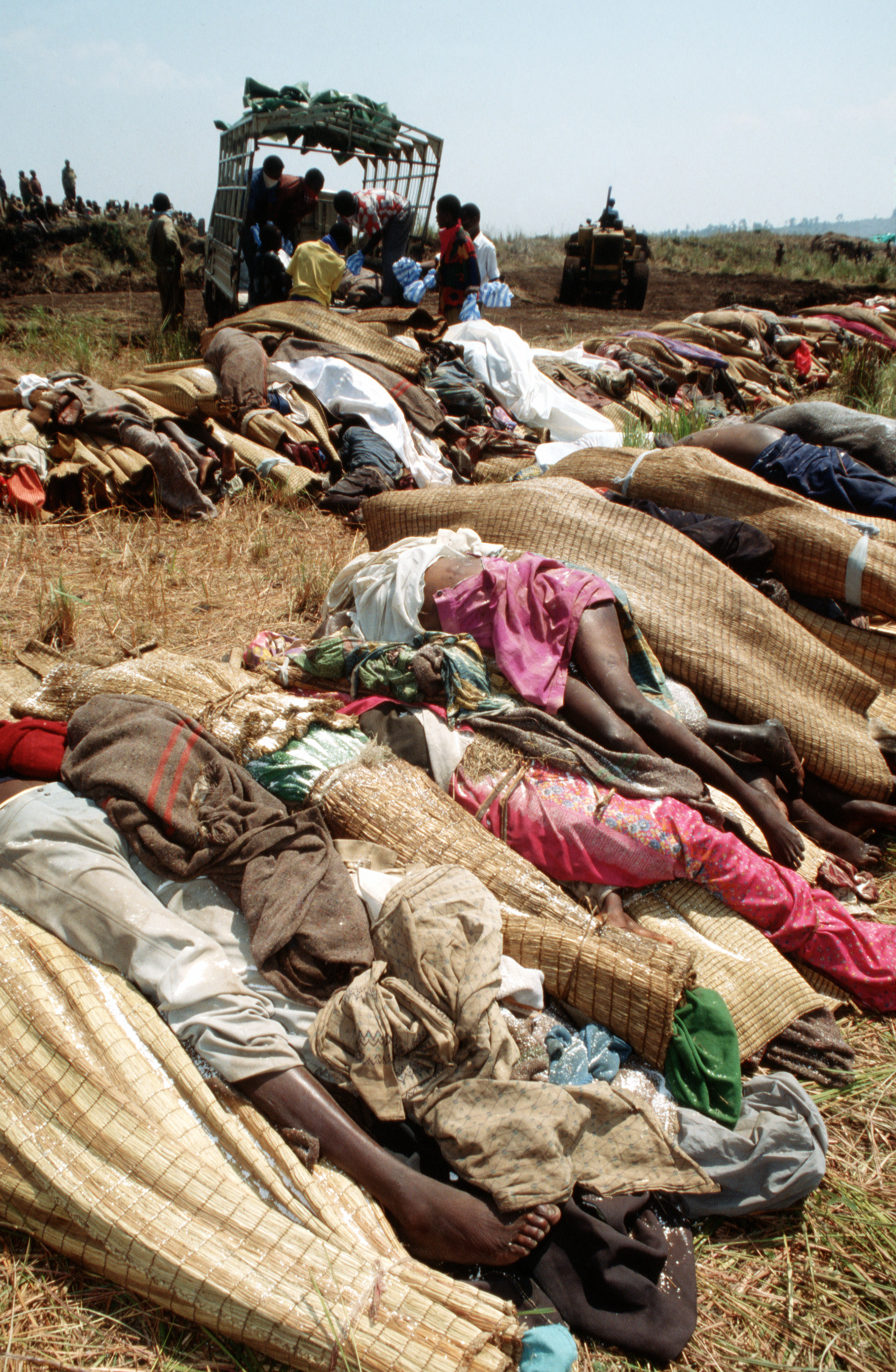 Bodies of Rwandan refugees wrapped in straw mats and blankets line the roadside. In the background, more bodies are off loaded from a truck. Because of the lack of fresh water and food as many as 50,000 people died in crudely established refugee camps, during an outbreak of cholera. From Airman Magazine's December 1994 issue article "Will You Please Pray for Us?" -Relief for Rwandan Refugees.